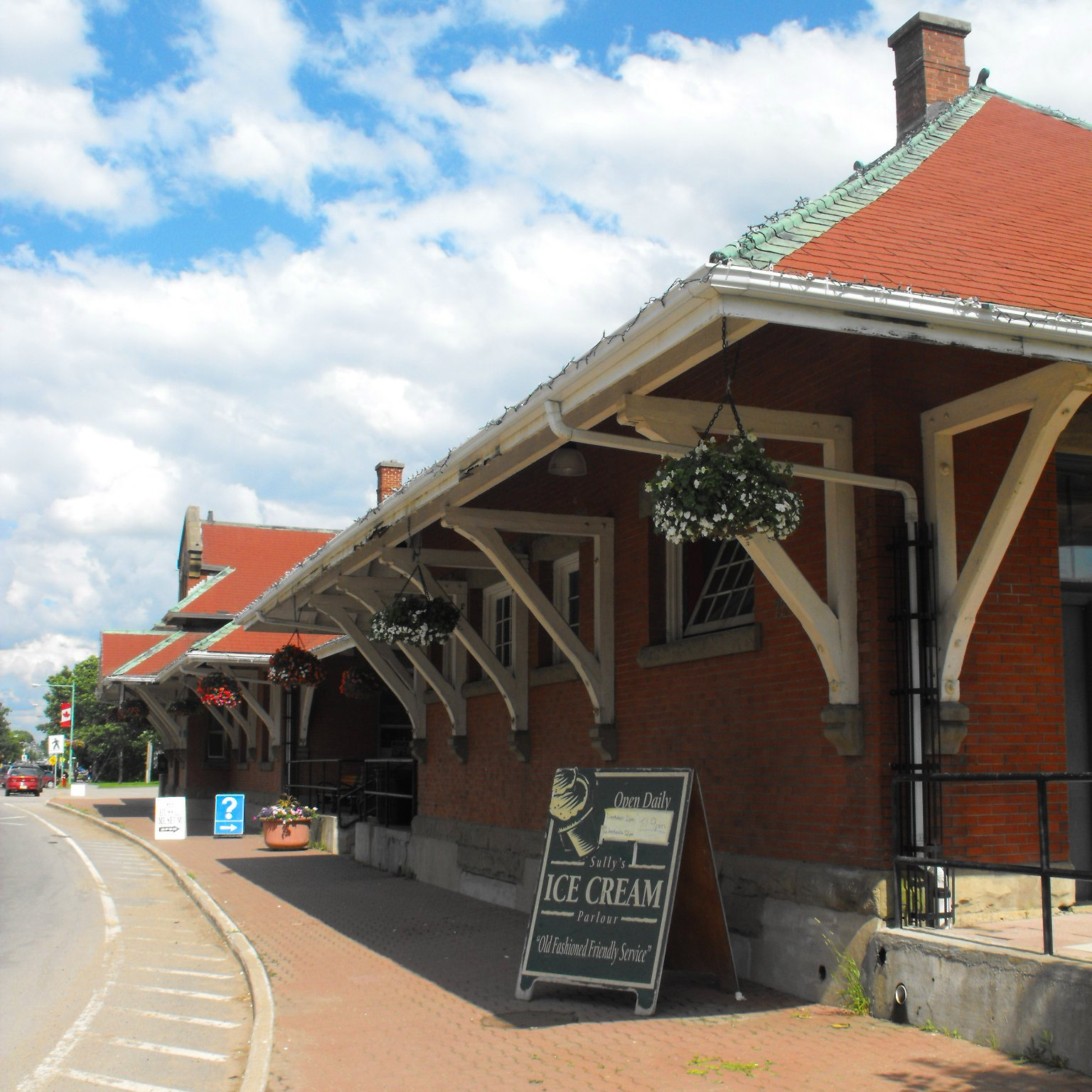 View of the former Canadian National train station at Sussex, New Brunswick. The building now contains an ice cream bar (seasonal) and a military museum.